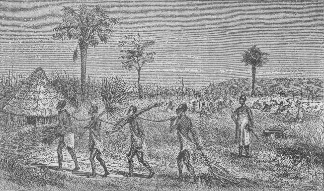 Slaves in eastern Africa.